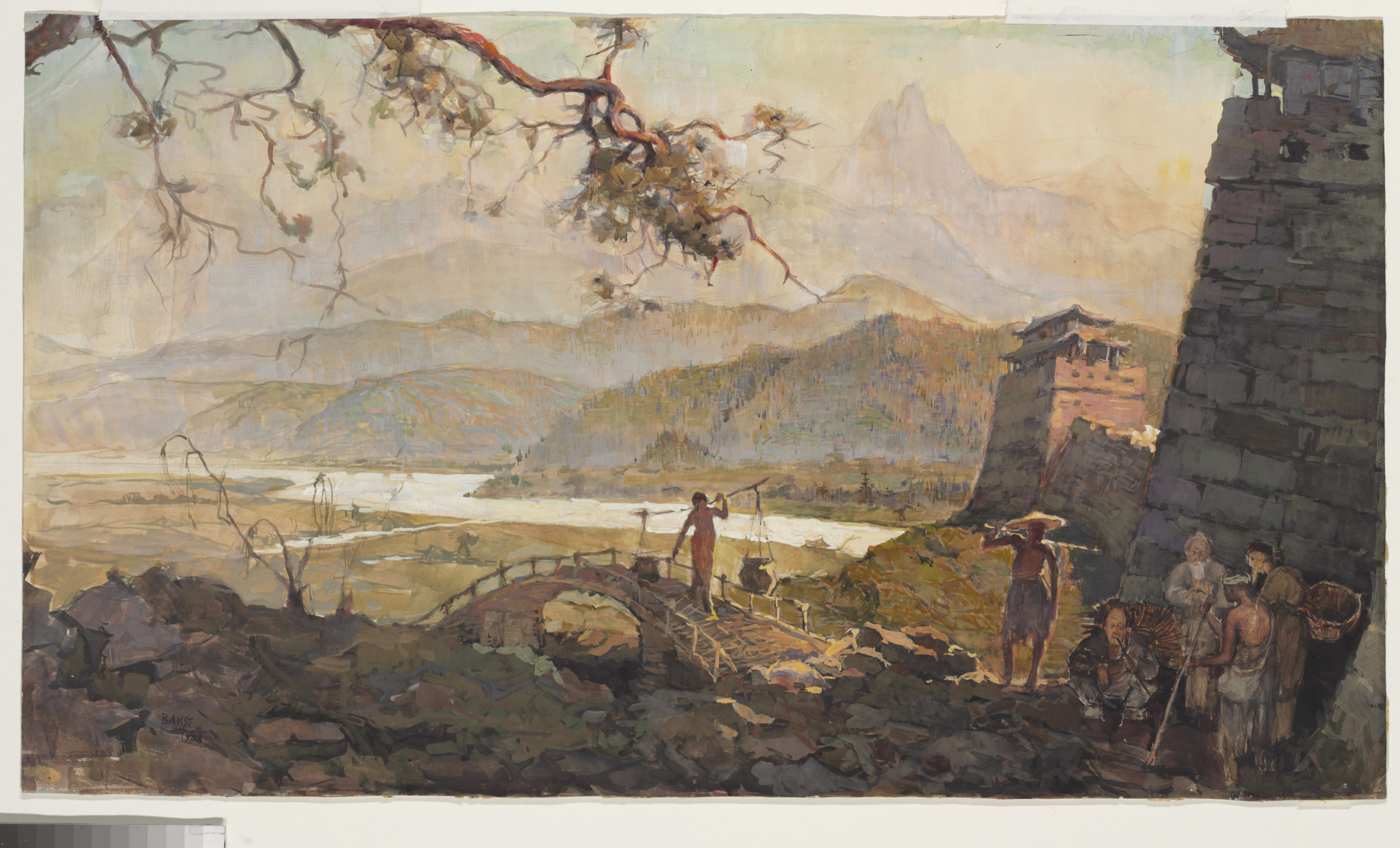 Set design for ballet "Les Orientales" Leon Bakst, 1908, watercolor, pencil, gouache (73.2 x 43 cm), scenic design for the Ballets Russes, Arte Russa 1900-1930 Genova, Galleria Cesarea